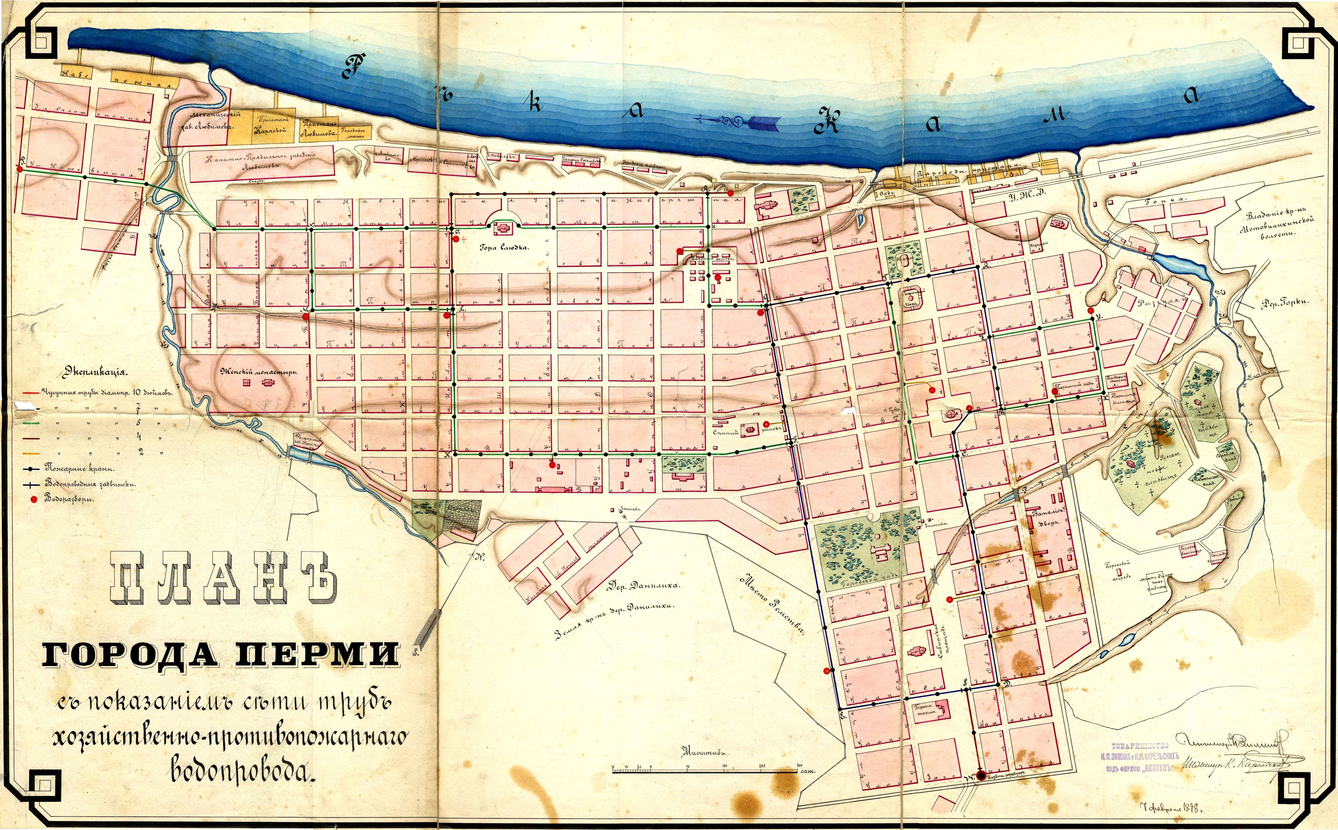 Map of Perm, 1898